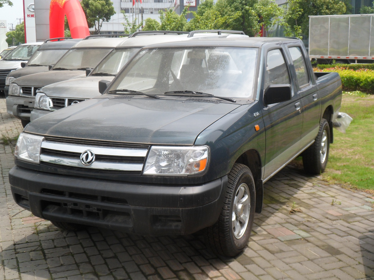 Dongfeng Rich photographed in Shanghai, China.